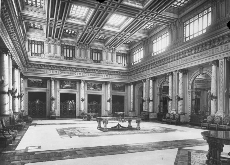 The Ras el-Tin Palace in 1931, on the Mediterranean coast in Alexandria, Egypt. The royal summer palace, built in the mid 19th century, and used as such until the last king's abdication in 1953.